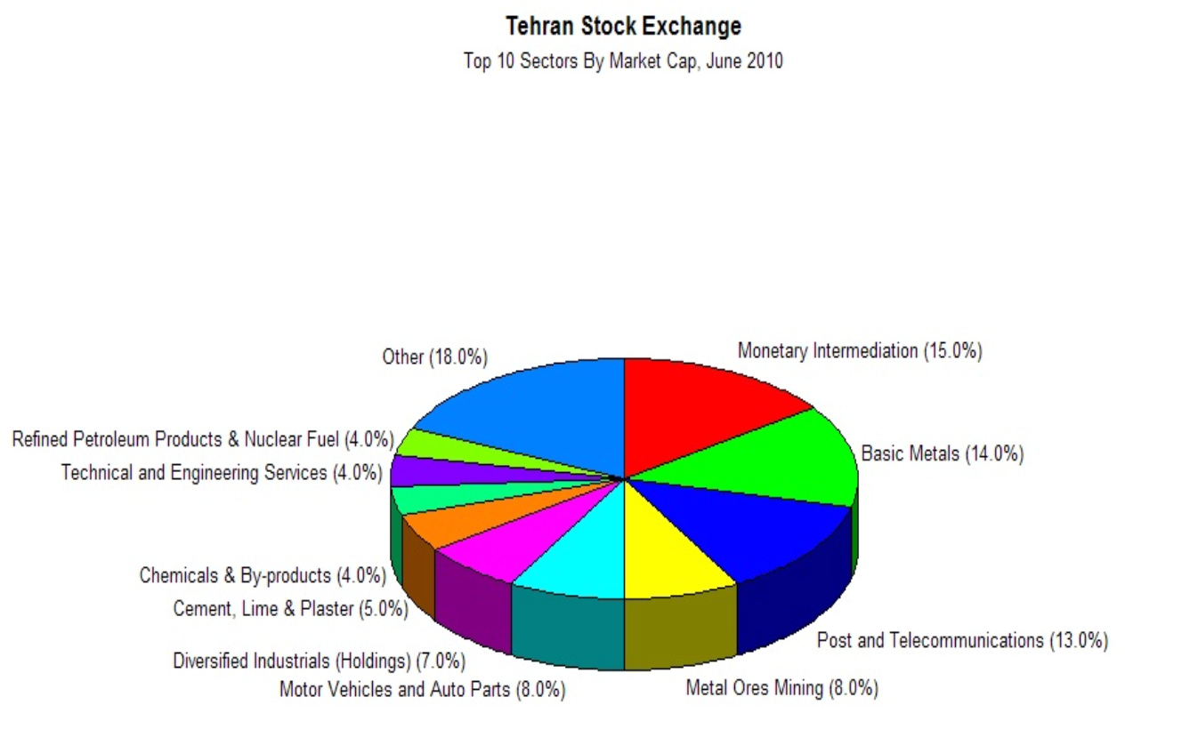 Tehran Stock Exchange - Top 10 Sectors by Market Cap. - End of June, 2010.